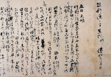 Visit of the cloistered Emperor to Kumano (熊野御幸記, kumano gokōki). Diary in classical Chinese of a visit with Emperor Go-Toba and Minamoto no Michichika to Kumano (熊野). Part of one handscroll, ink on paper, 30.1 cm × 678.0 cm (11.9 in × 266.9 in) located at Mitsui Memorial Museum, Tokyo. The scroll has been designated as National Treasure of Japan in the category ancient documents.